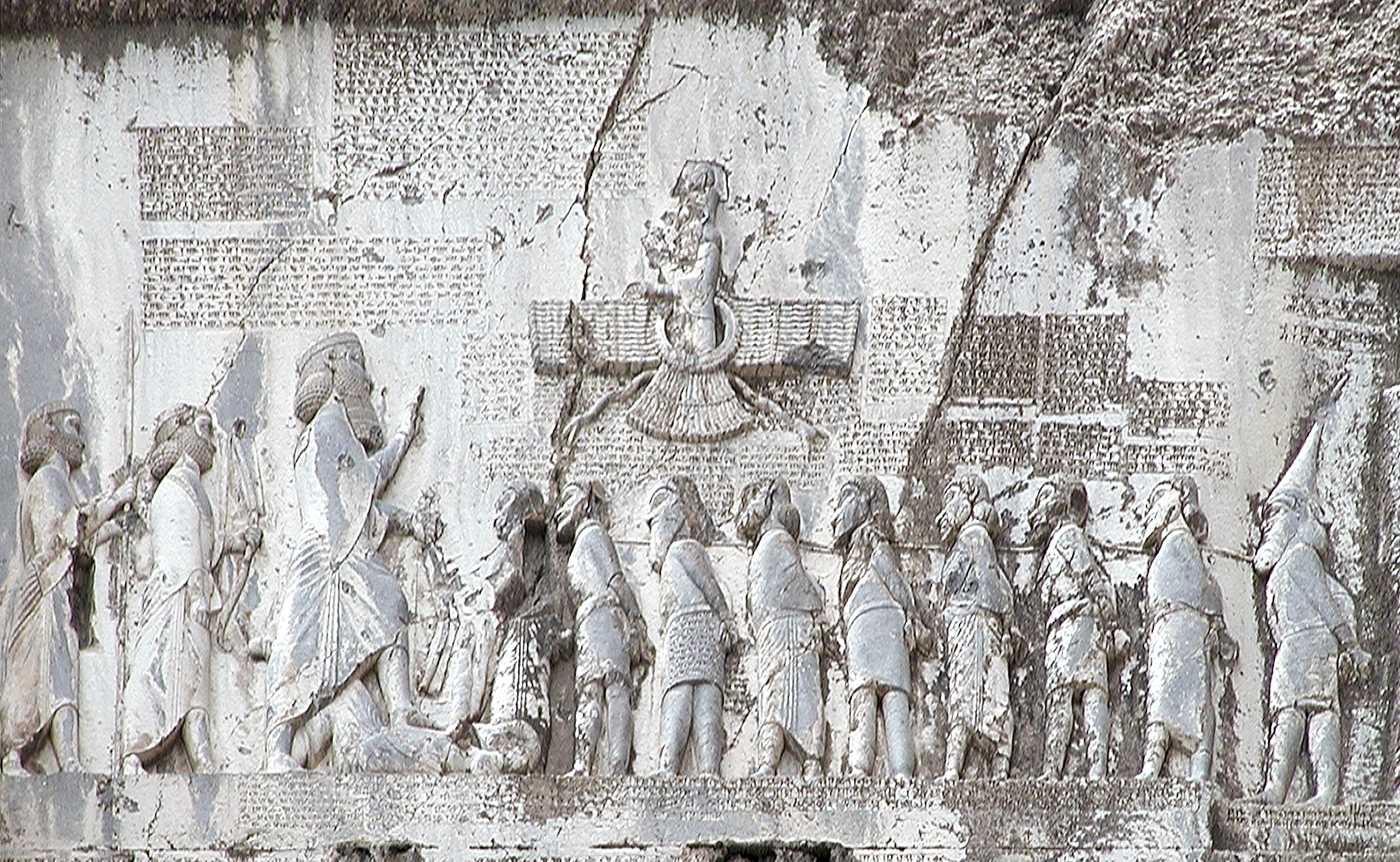 Behistun inscription reliefs